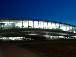 PPUR - Rolex Learning Center